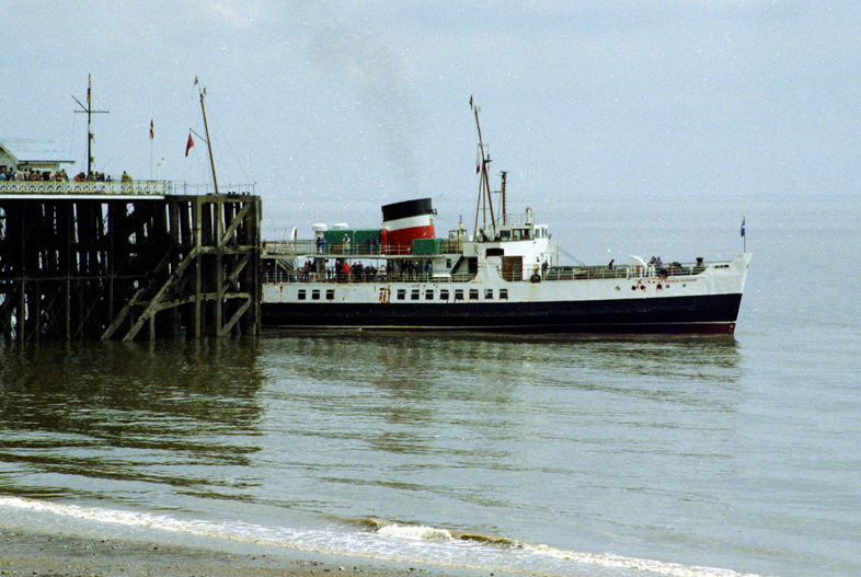 The ill fated Prince Ivanhoe that sailed for a short time in the Bristol Channel before running aground at Port Eynon in the Gower. She never sailed again.